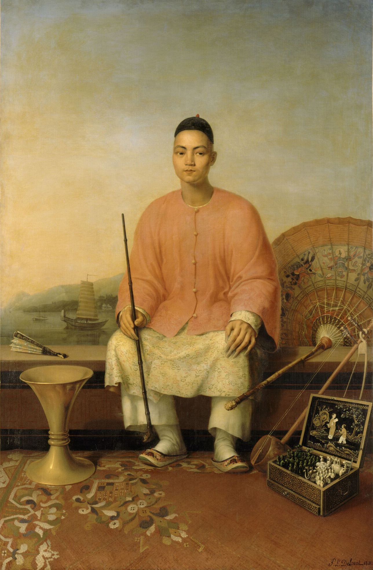 Portrait of Kan Gao